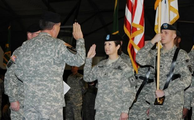 Brig. Gen. Colleen McGuire takes oath of office in Washington DC in 2010